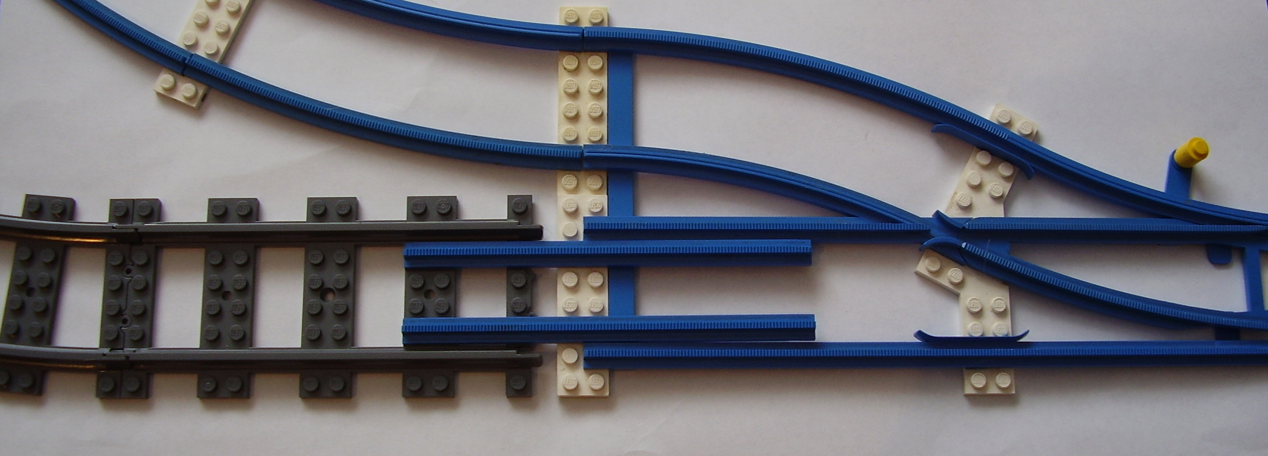 Lego Train track from the blue era connected to Lego Train track from the RC era.